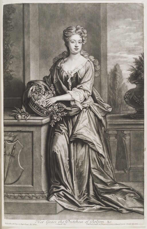 Henrietta Crofts (née Scott), Duchess of Bolton by and published by John Smith, after Sir Godfrey Kneller, Bt mezzotint, 1703 (circa 1700) 16 1/2 in. x 10 1/2 in. (418 mm x 267 mm) plate size; 16 3/4 in. x 10 3/4 in. (425 mm x 273 mm) paper size Purchased, 1944 Reference Collection